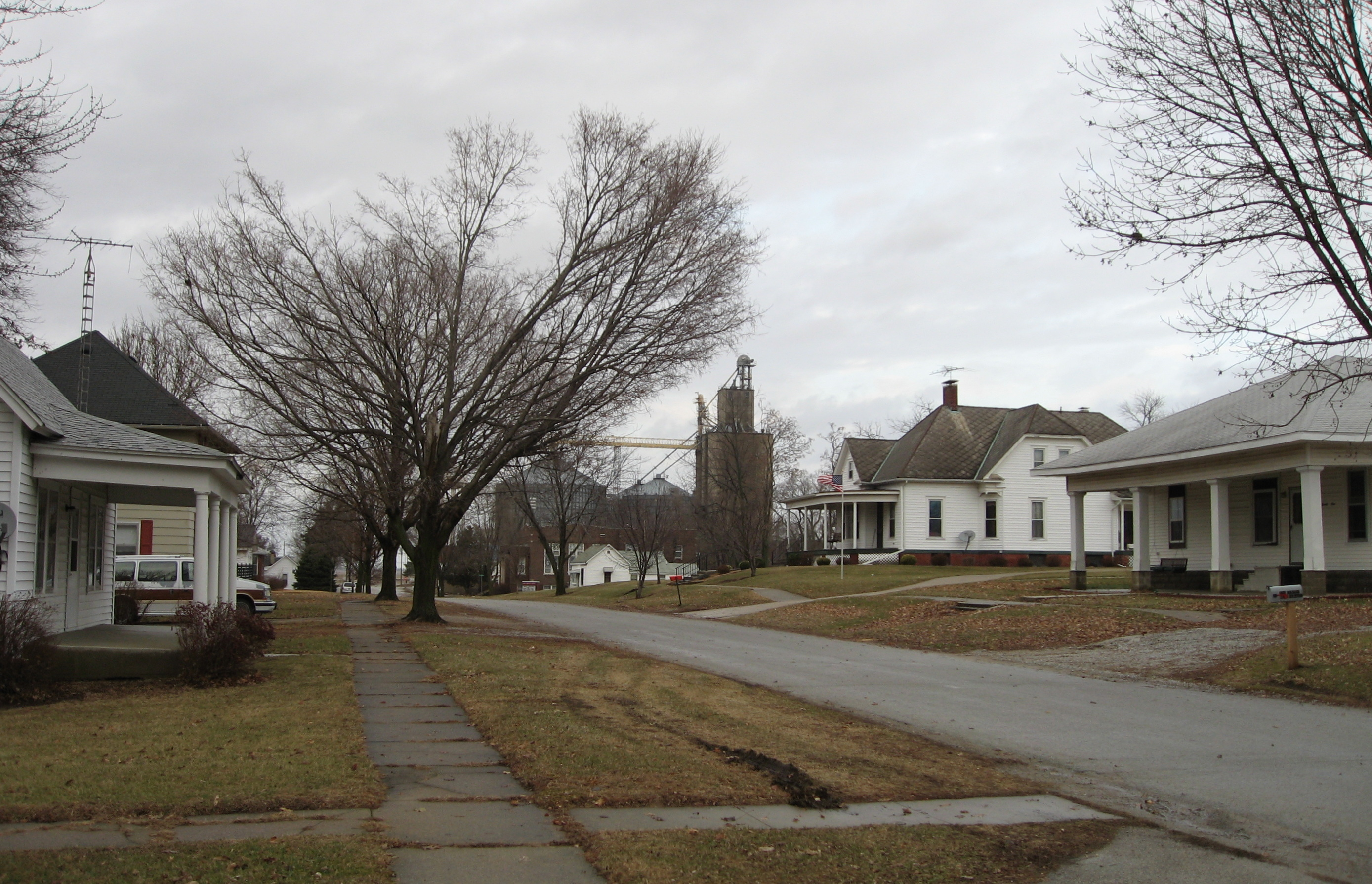 View of northern part of Hume, Illinois, USA. Taken on Center Street.